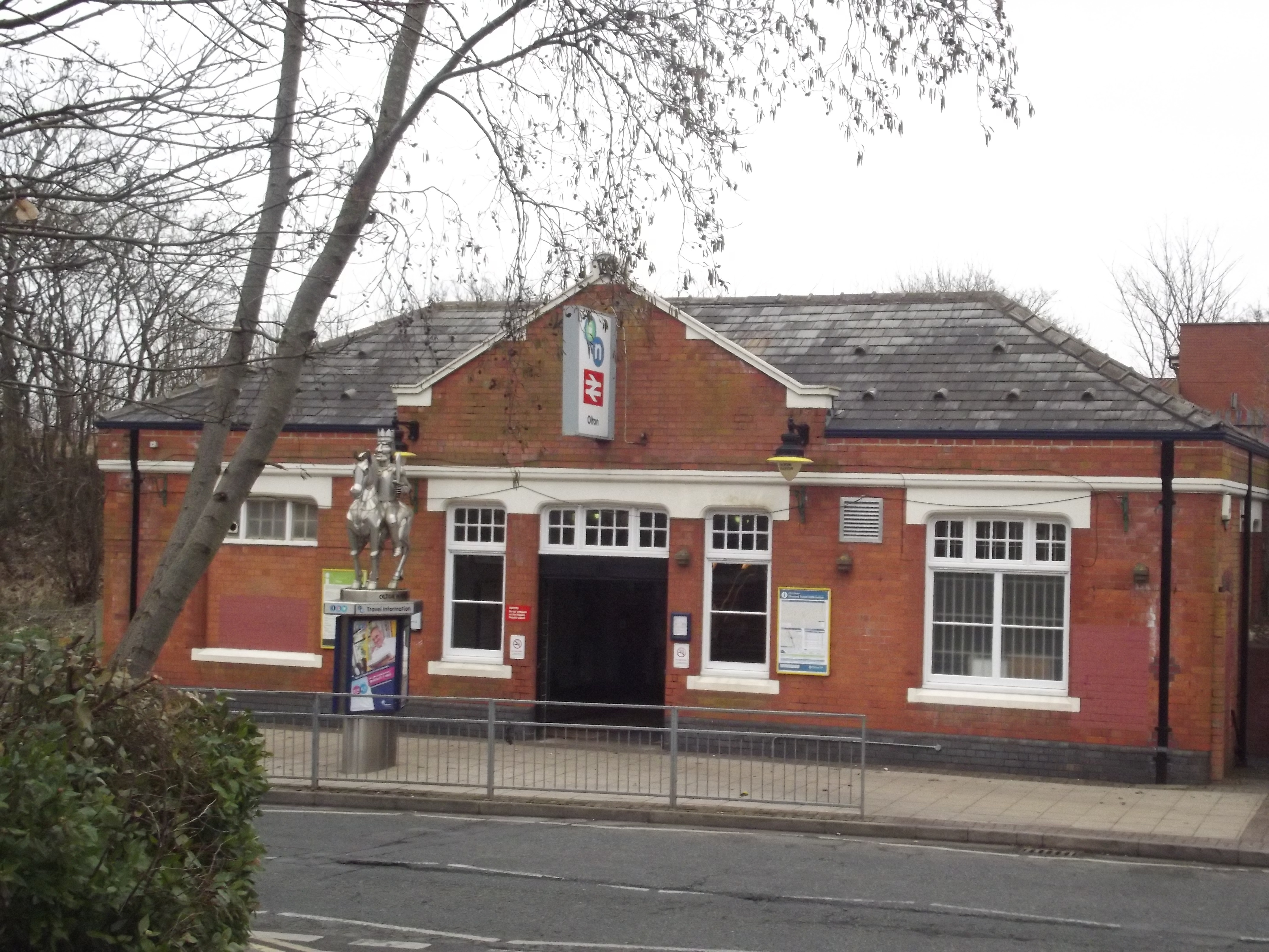 There was a lot of traffic on the Warwick Road in Olton. Got on and off the 37 bus near Olton Station. Station building and sign. Olton station opened in 1869 on the GWR's Oxford & Birmingham extension and had for some sixty-seven years a two platform configuration. It was never seen as as a station of significant importance not even warranting a goods yard until 1933 when it was rebuilt, in common with other stations approaching Birmingham, with two island platforms. However the station developed from a mainly rural outpost to becoming a busy commuter route to Birmingham. The increase in capacity did not however lead to an increase in station staff as Vic Mitchell & Keith Smith in their book 'Banbury to Birmingham' record that staff numbers fell from eleven in 1923 to seven in 1935. Olton had three signal boxes with the first signal box being located at the Leamington end of the up platform. This signal box was replaced in January 1907 when the GWR installed passing loops to the West of the station and constructed a new signal box controlling the junction. The third signal box was equipped with 31 levers and replaced the junction signal box when the station was remodelled in 1933 and was finally closed in 1969. Above information from Warwickshire Railways - Olton Station